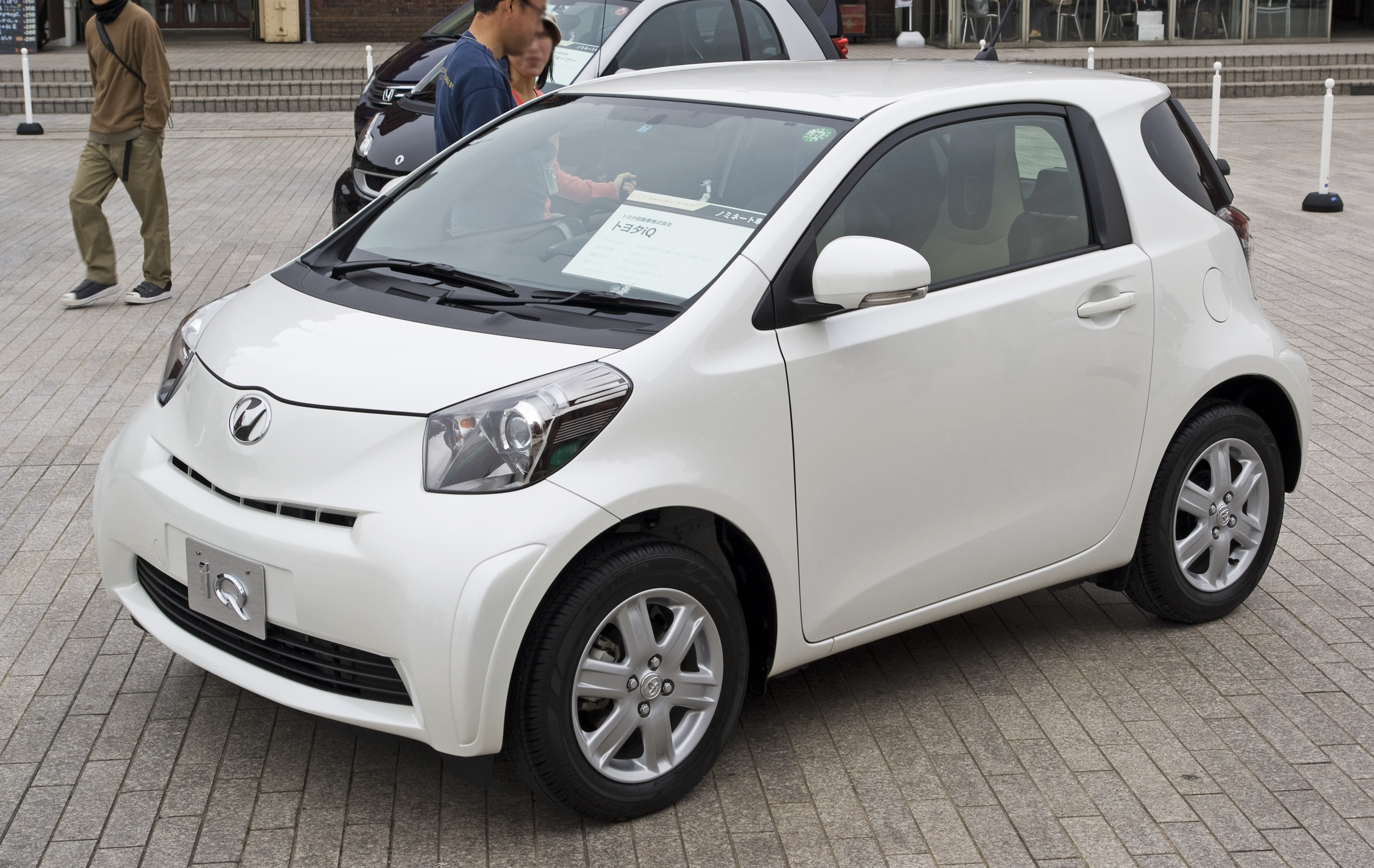 Toyota iQ photographed in Yokohama Red Brick Warehouse